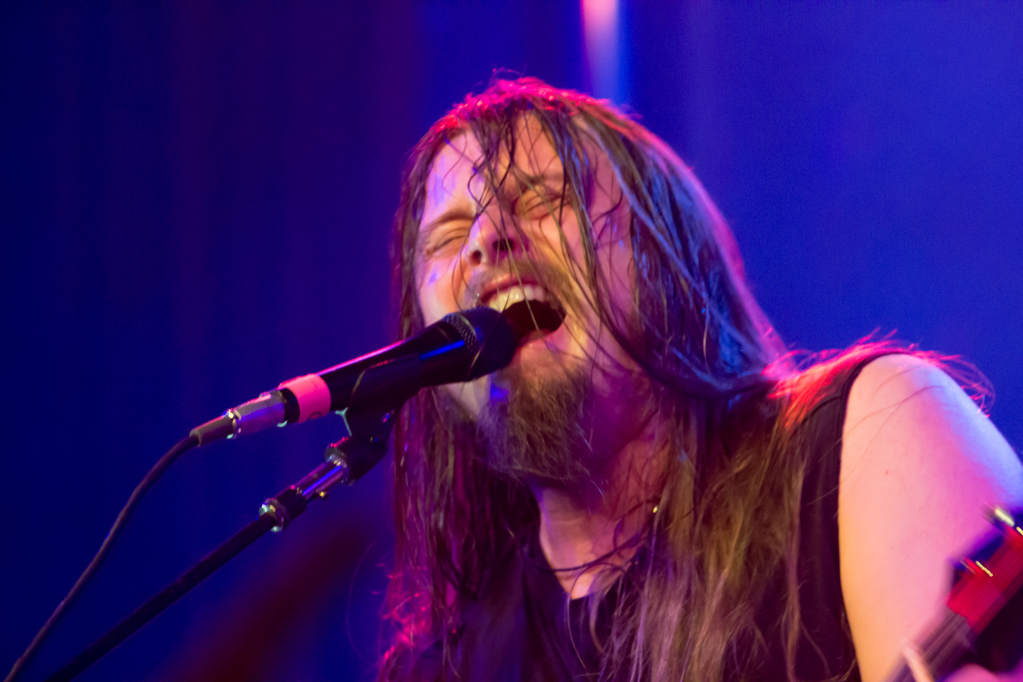 Enslaved playing on the "Barge to Hell" metal cruise in 2012